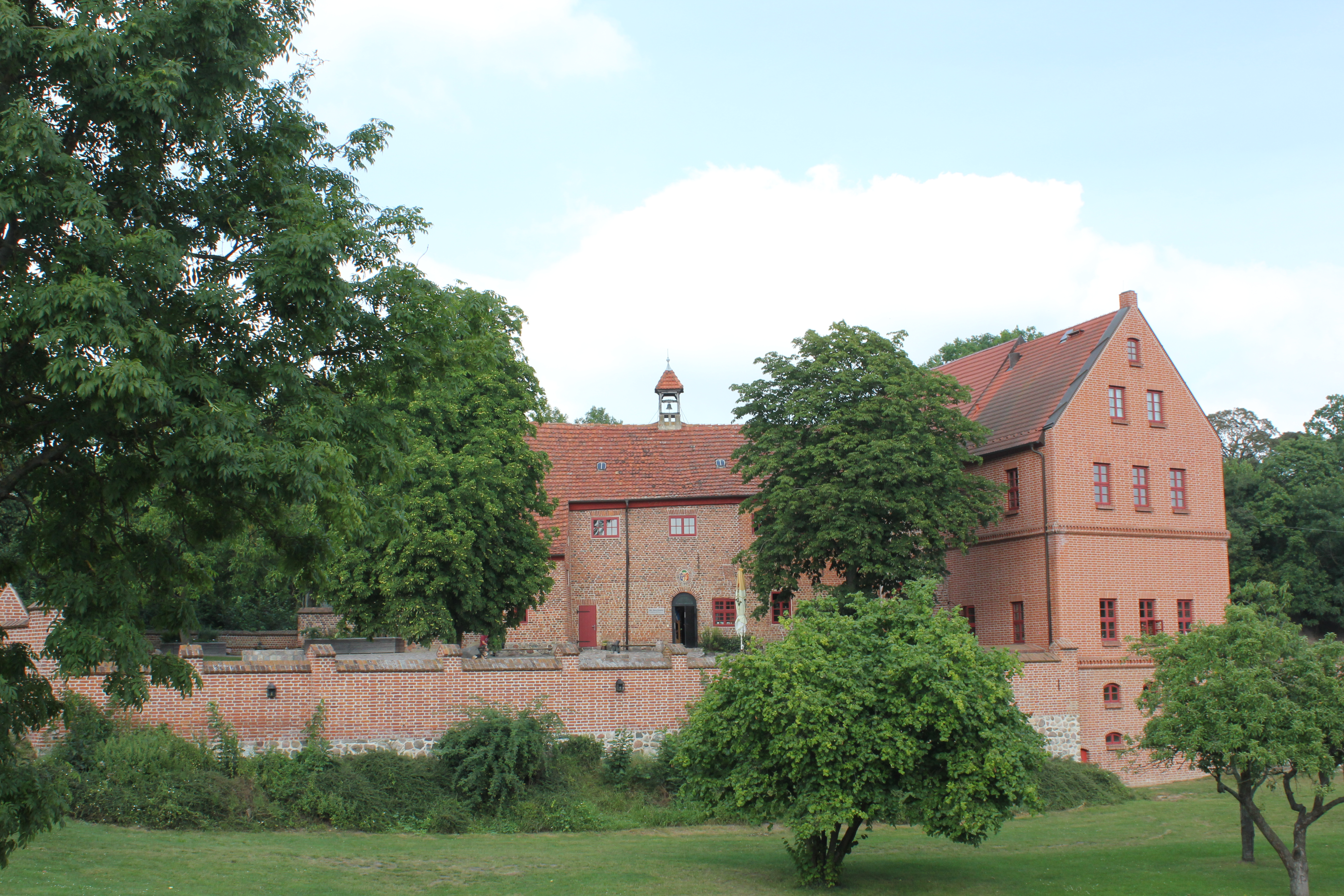 The castle of Penzlin